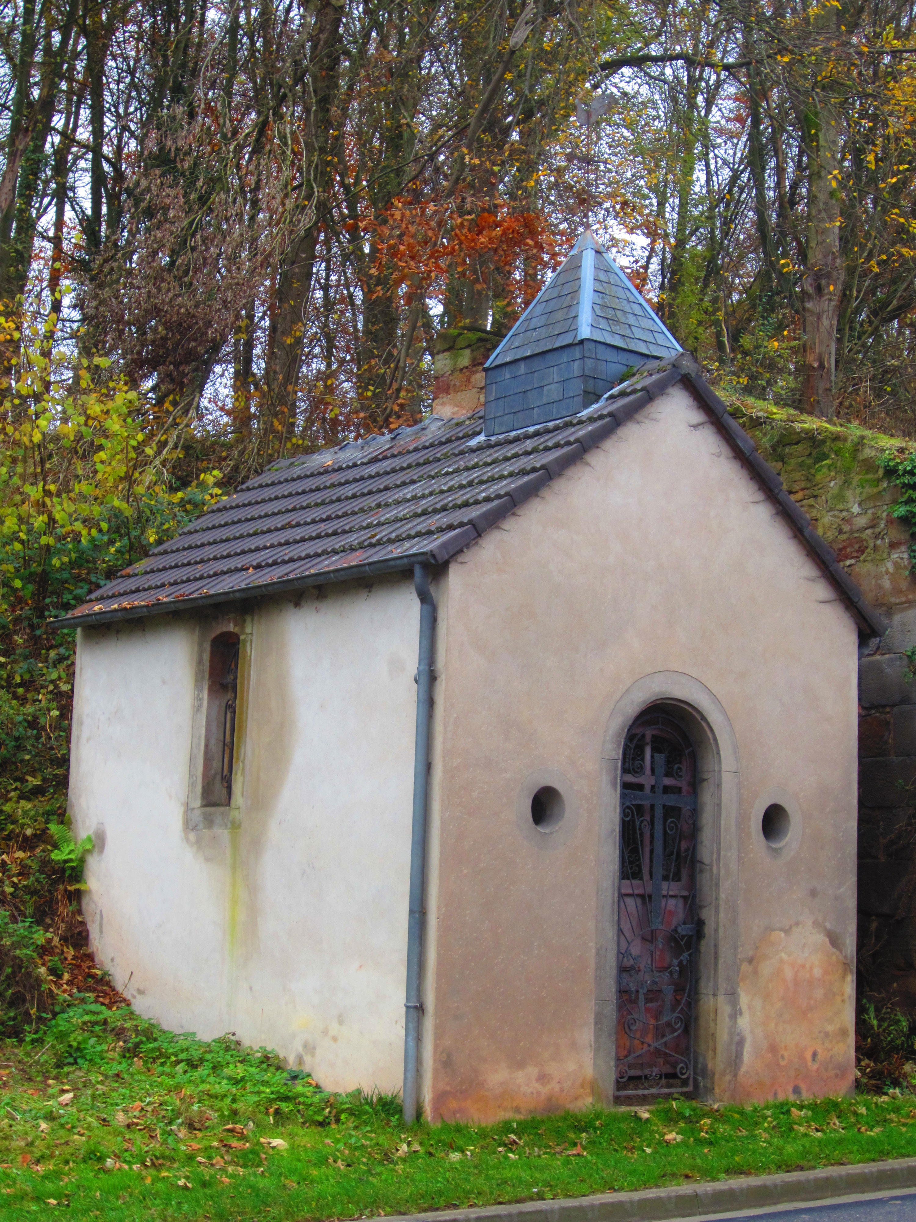 moulin neuf Macheren chapel